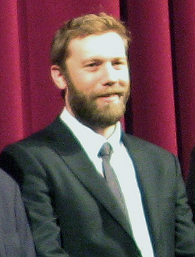 Jakob Cedergren at the World premiere of Rage at the Berlinale Palast